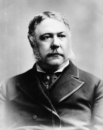 Chester Alan Arthur. 21st President of the United States (1881-1885)